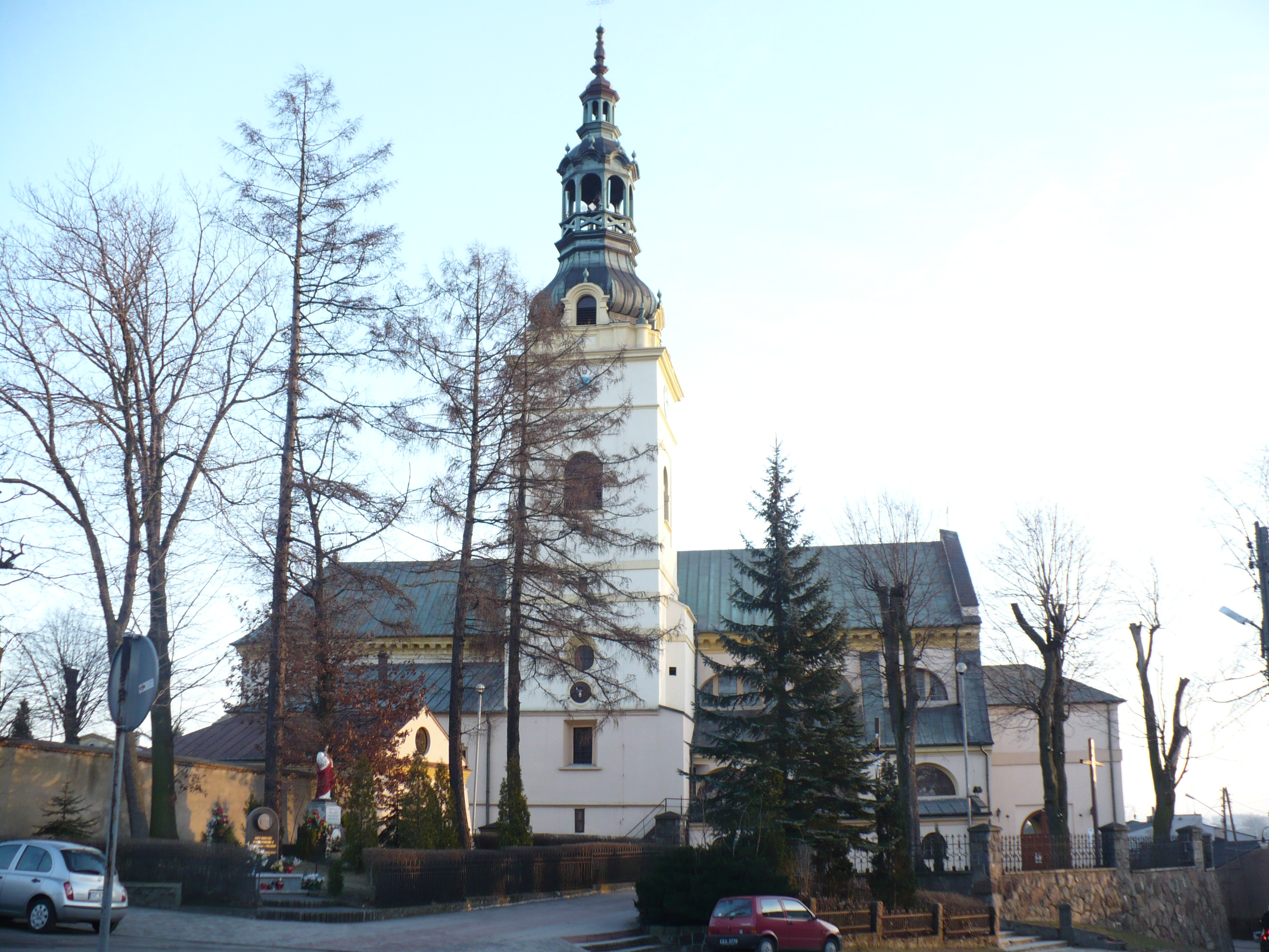 Saints Martin and Margaret church in Kłobuck